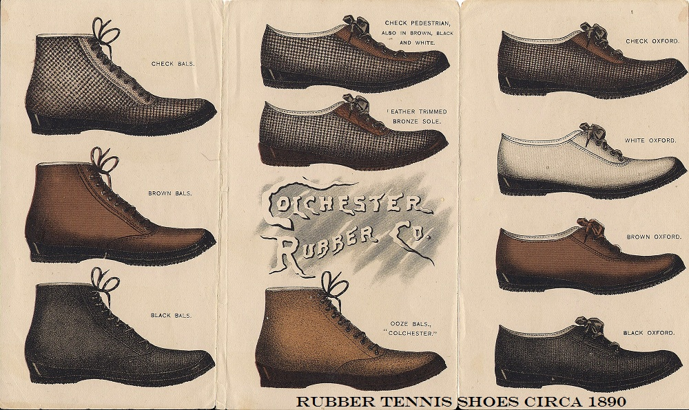 Advertising pages from Colchester Rubber Company catalogue Circa 1890 Advertising pages from Colchester Rubber Company catalogue c.1890